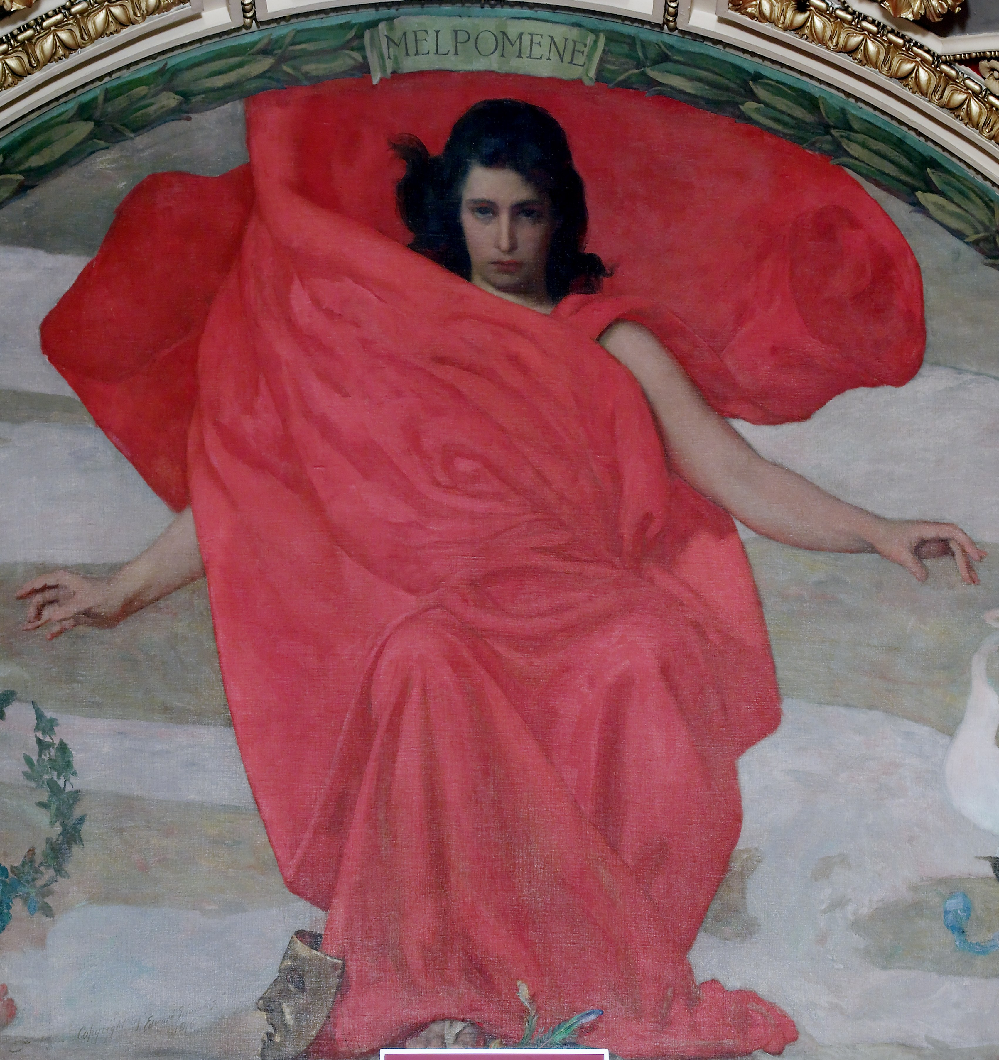 Detail from mural depicting the muse Melpomene (Tragedy), by Edward Simmons. Northwest Corridor, First Floor, Library of Congress Thomas Jefferson Building, Washington, D.C. Top of mural reads "MELPOMENE"; artist signature reads "Copyright by Edwards Simmons 1896".